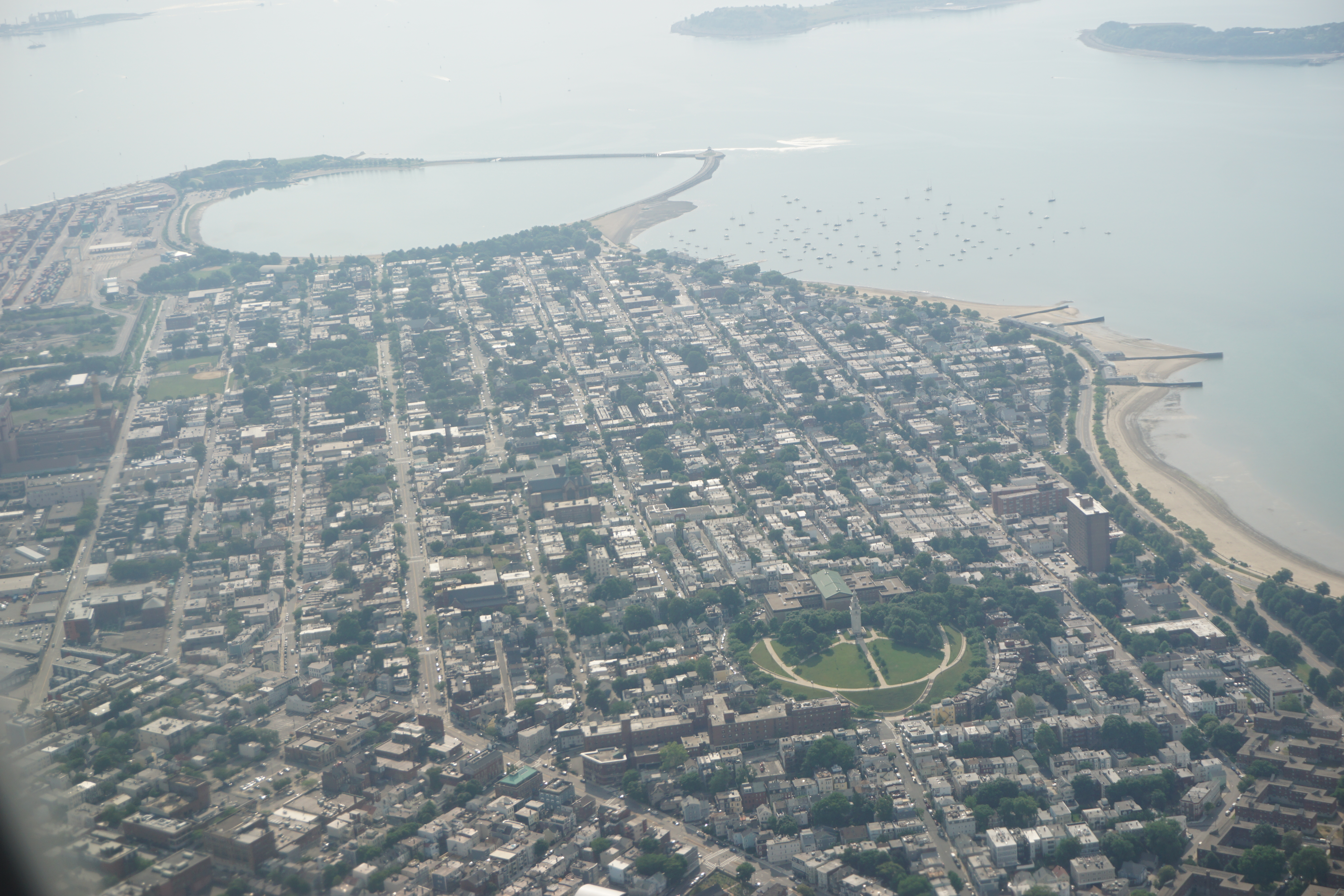 Image of South Boston from the air, taken 2018, July 1.